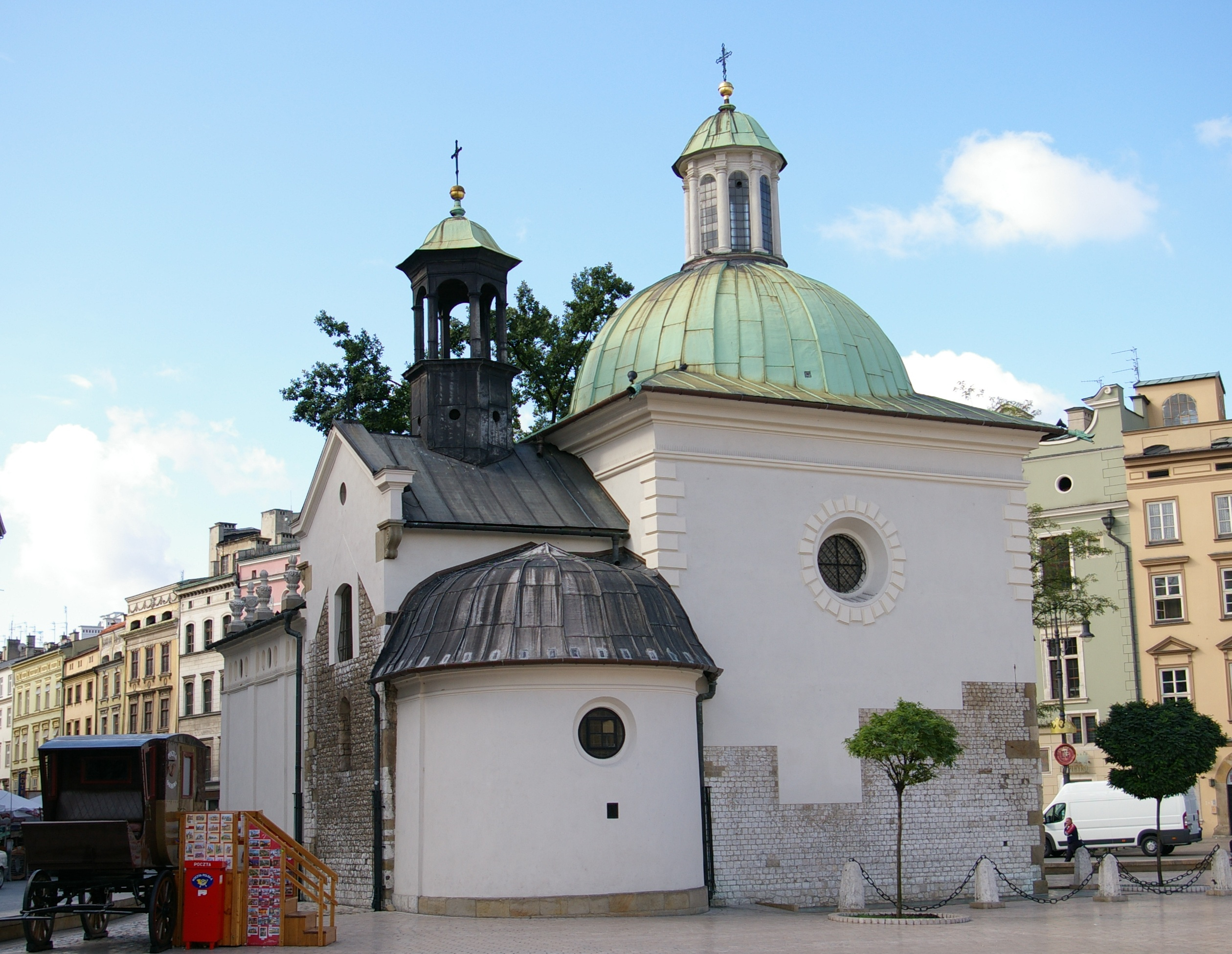 St. Adalbert's Church in Kraków